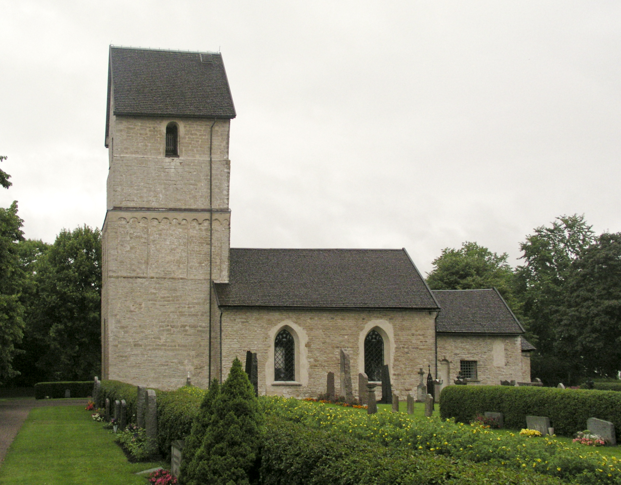 Herrestads kyrka/church, Diocese of Linköping, Sweden.